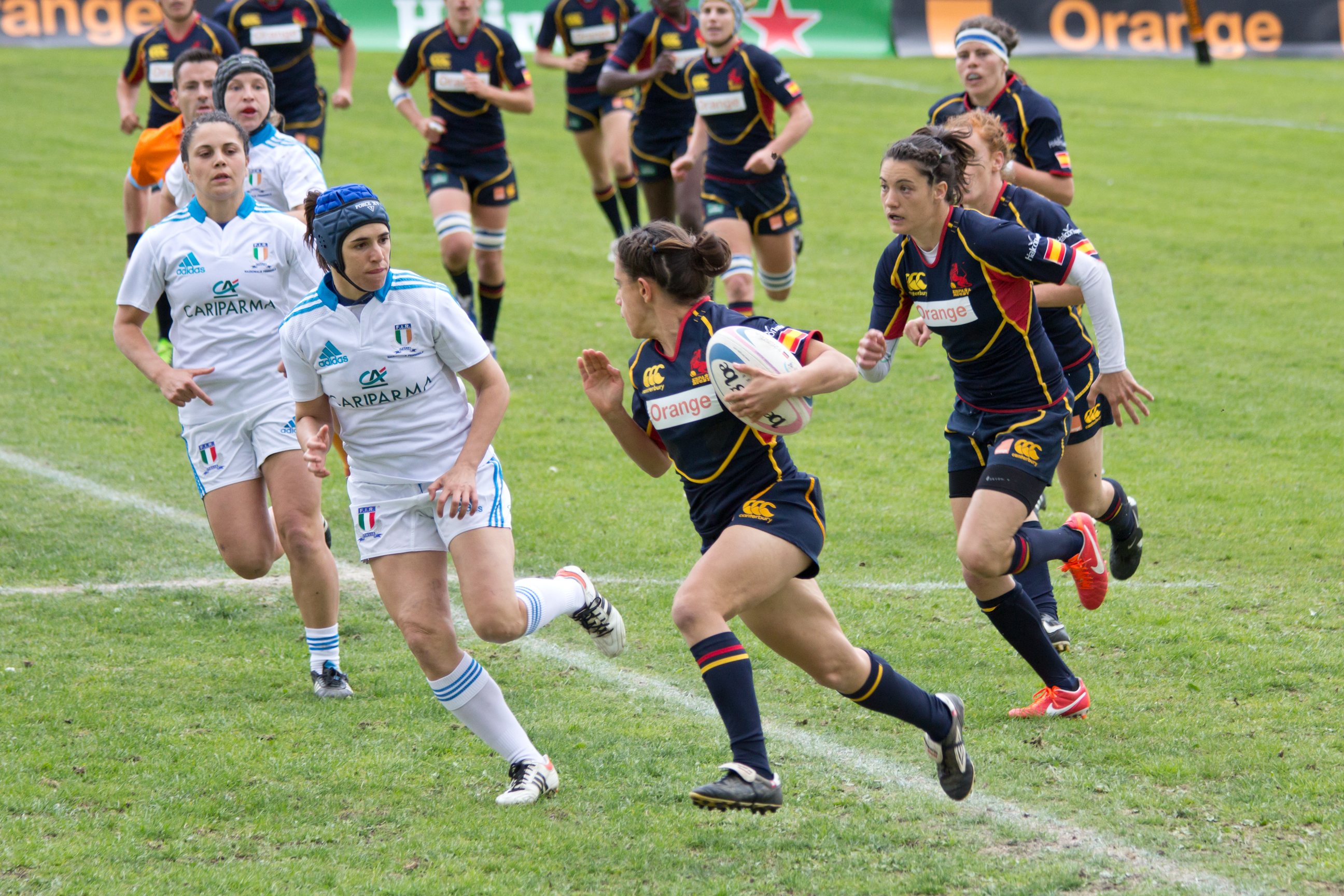 Game of the 2013 Women's European Qualification Tournament between Italy and Spain 7-38(b).